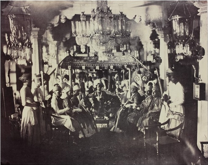 Todiman Raja in his Durbar, Pudukkottai, 1858. From the album 'Photographic Views of Poodoocottah' South India 1858